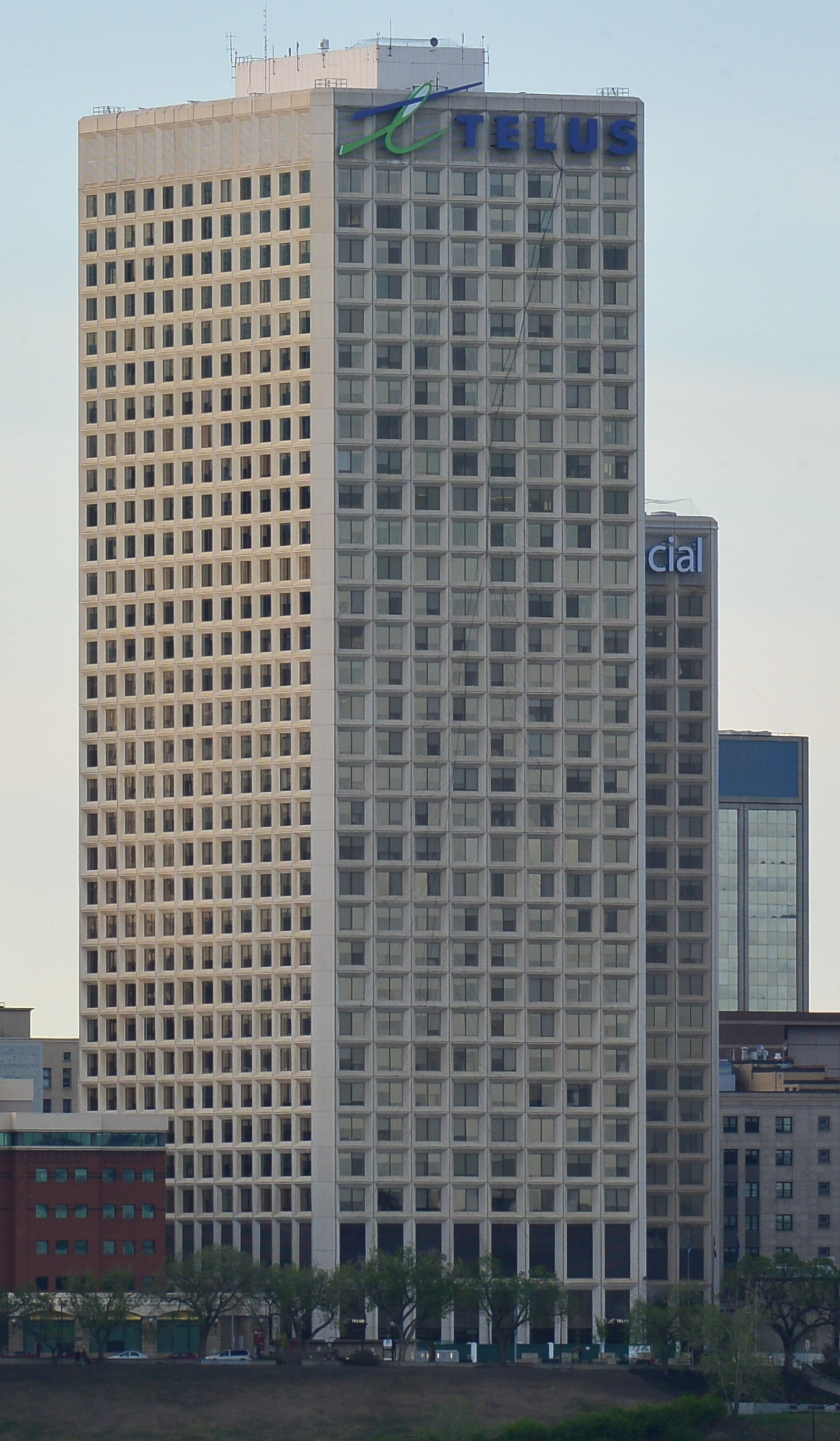 TELUShouse Tower, Edmonton, AB.